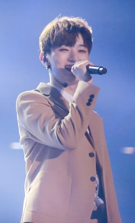 170807 Wannaone Premiere Show Concert